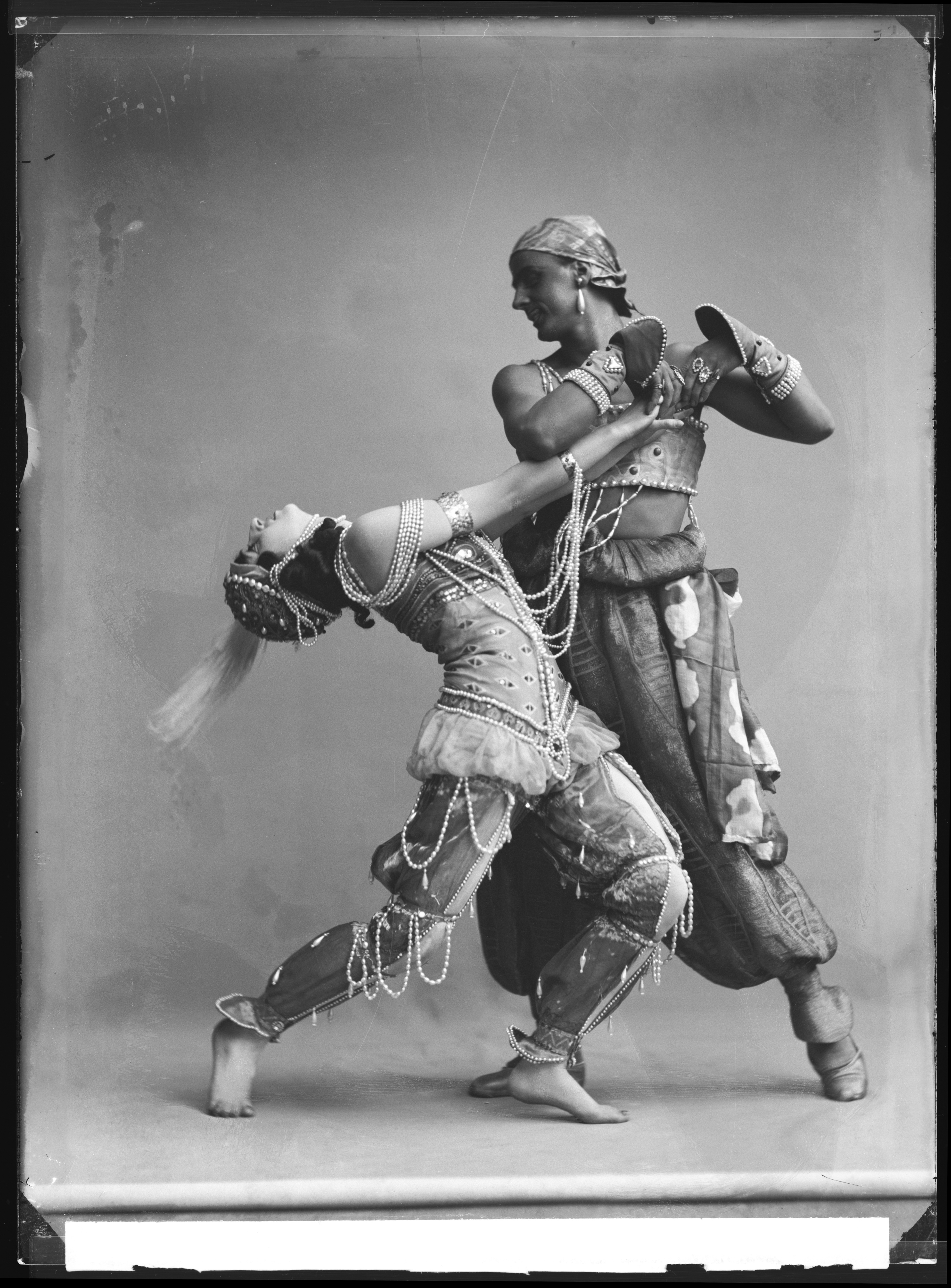 Mikhail Fokin and Vera Fokina in the ballet Scheherazade. Glass plate negative.